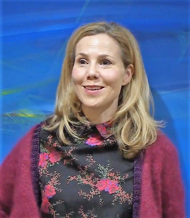 Eureka! Ambassadors - Sally Phillips Sally explains why Eureka! is a truly accessible destination for all families.